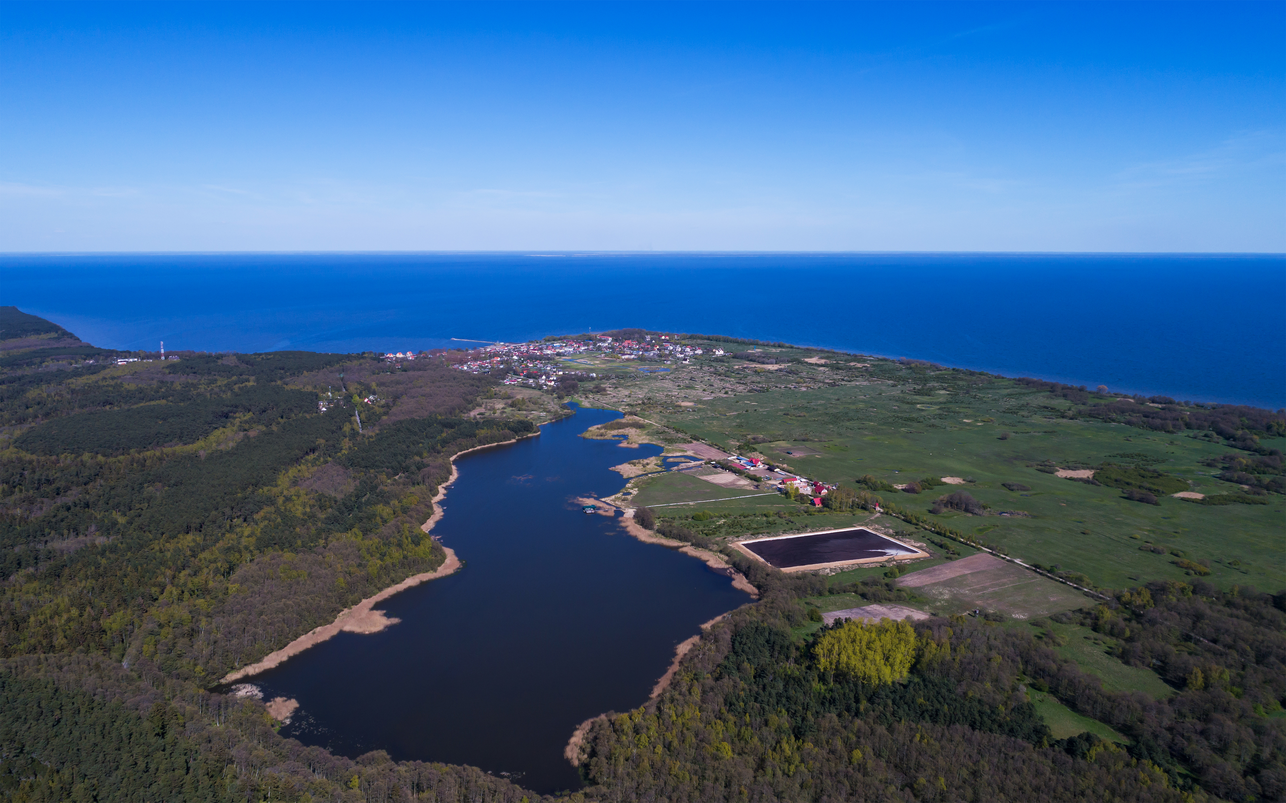 Curonian Spit in Kaliningrad Oblast (Russia). Aerial view at Müller's Height. View of Lake Chaika and Rybachiy settlement.